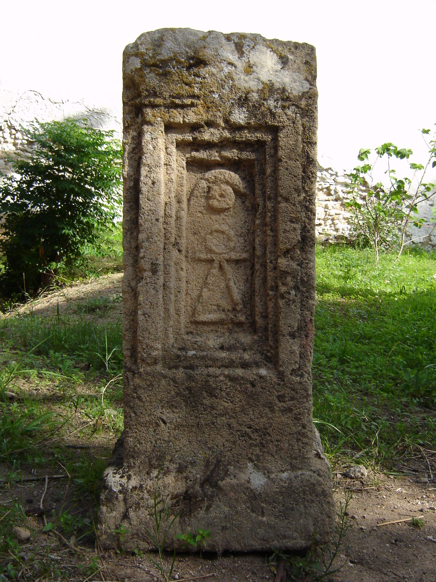 Stele on the Tophet of Carthage. Source: Self-made, October 2004 Author: BishkekRocks